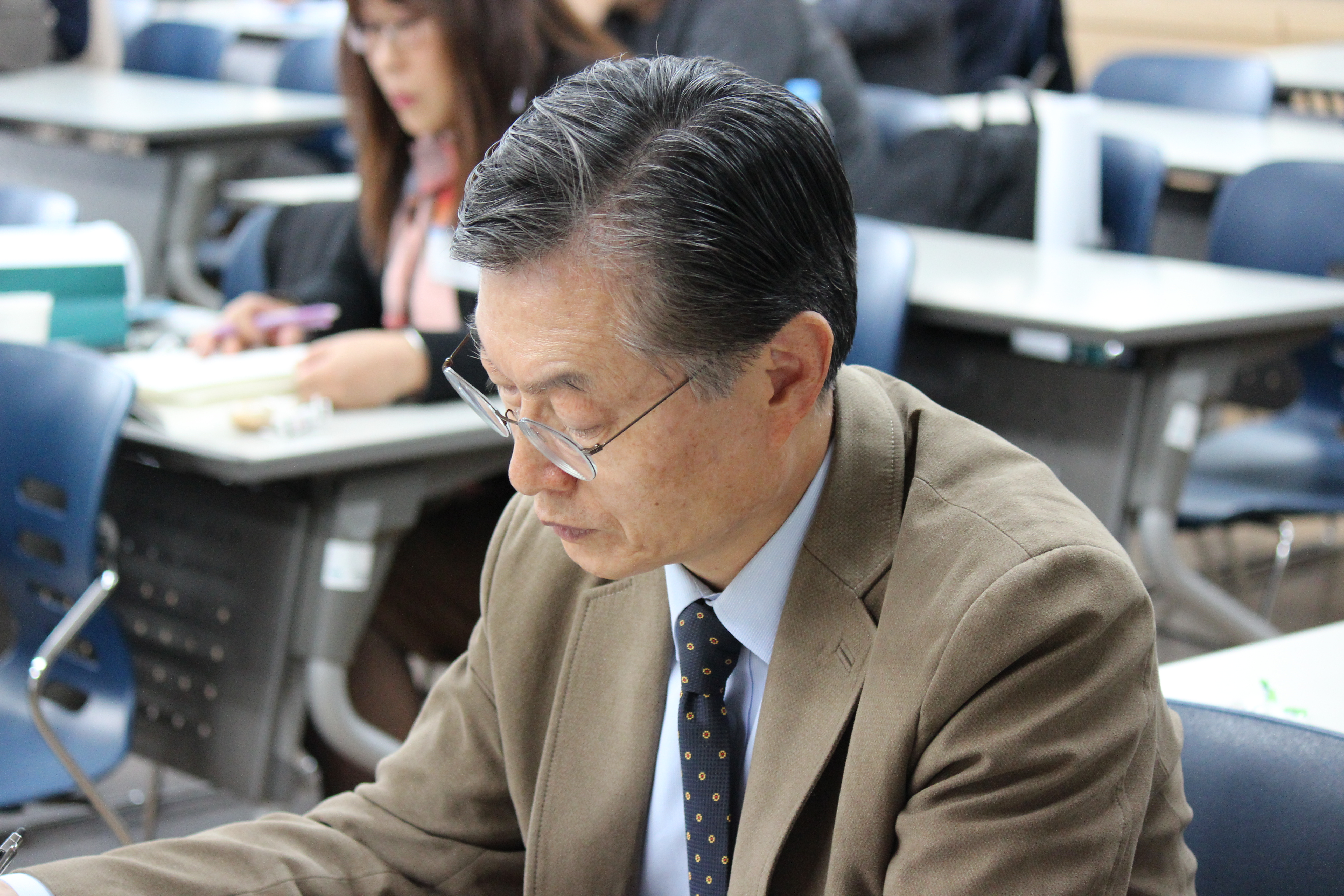 아세아연합신학대학교 총장 정흥호 박사, 2018년 10월 27일 한국복음주의신학회